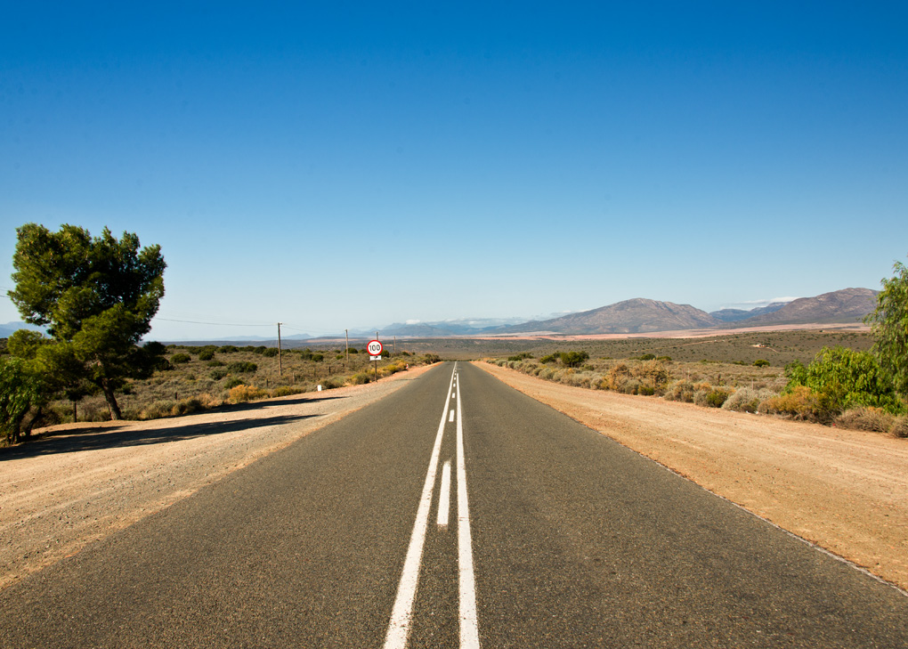 Long road from George to Oudtshoorn with the speed limit on the left side of the road and the threat of speed cameras with the mountains in the background against the blue sky